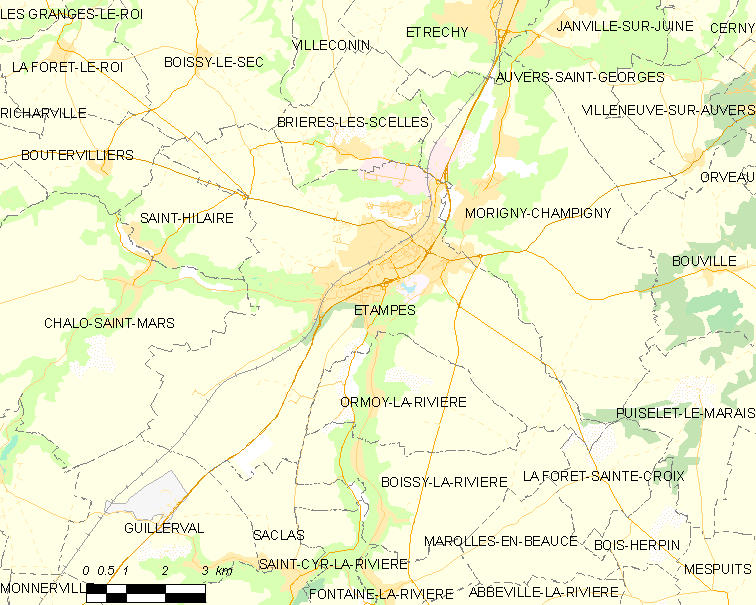 Map of French municipality Étampes